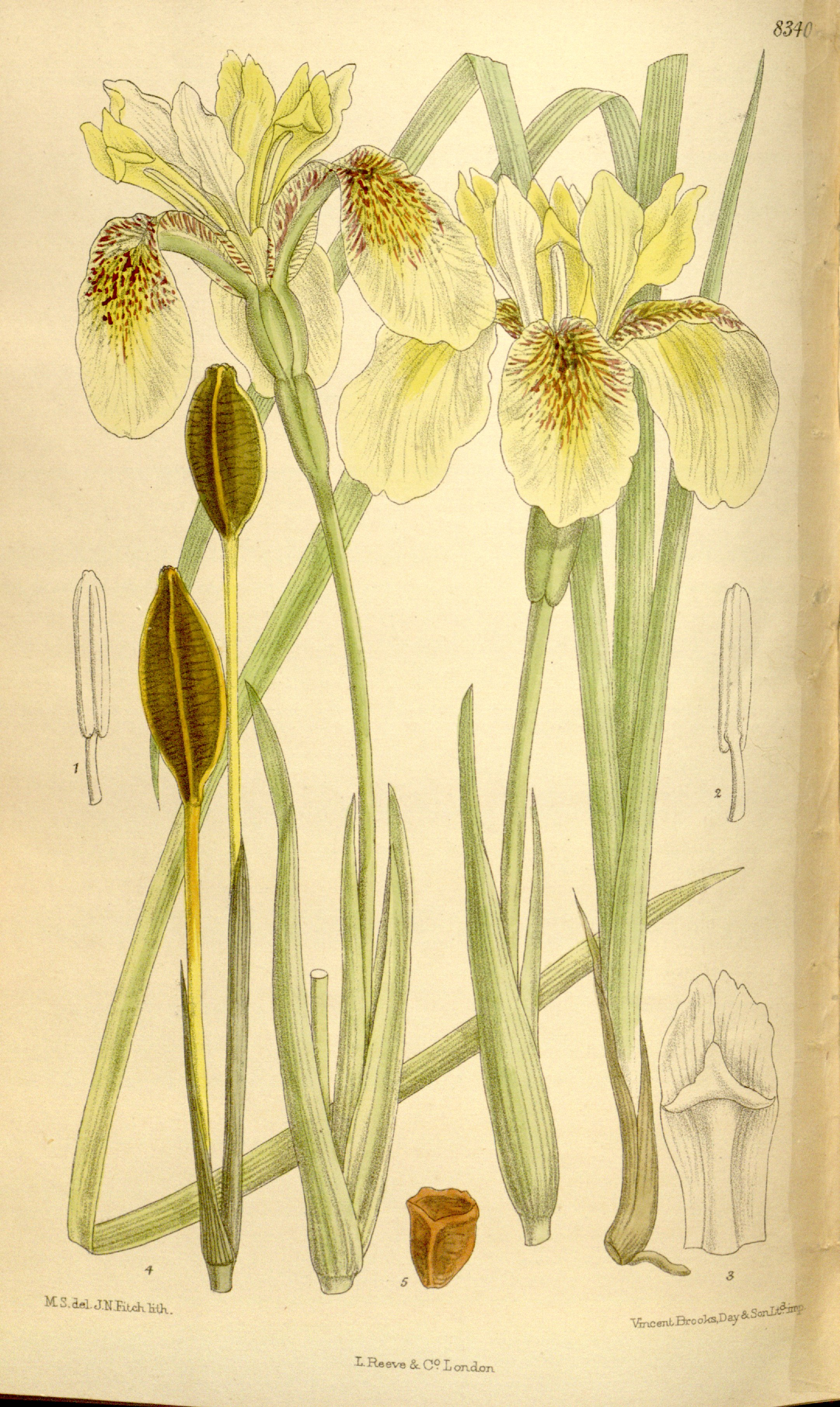 Iris wilsonii, Iridaceae